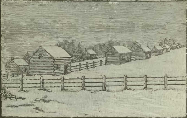 Engraving of the Credit Mission in 1827